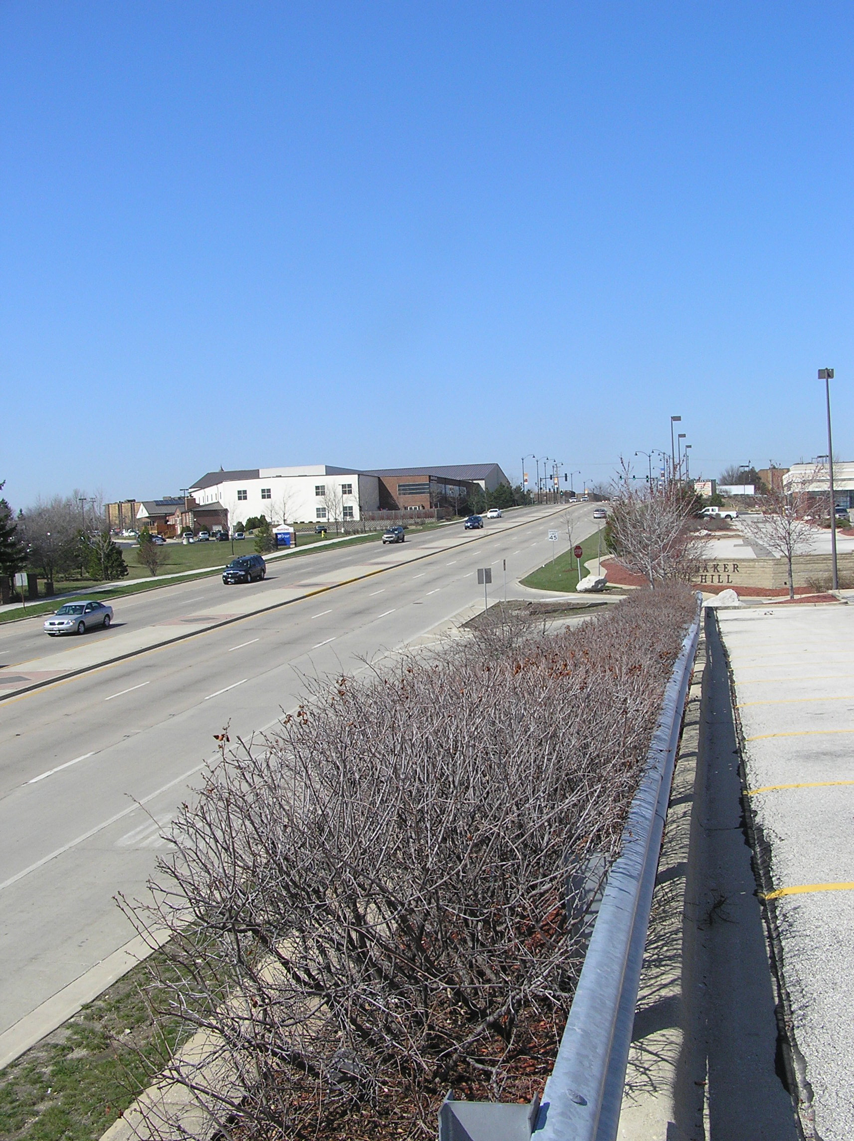 Personal photo. Baker Hill is just east of the west branch of the DuPage River.